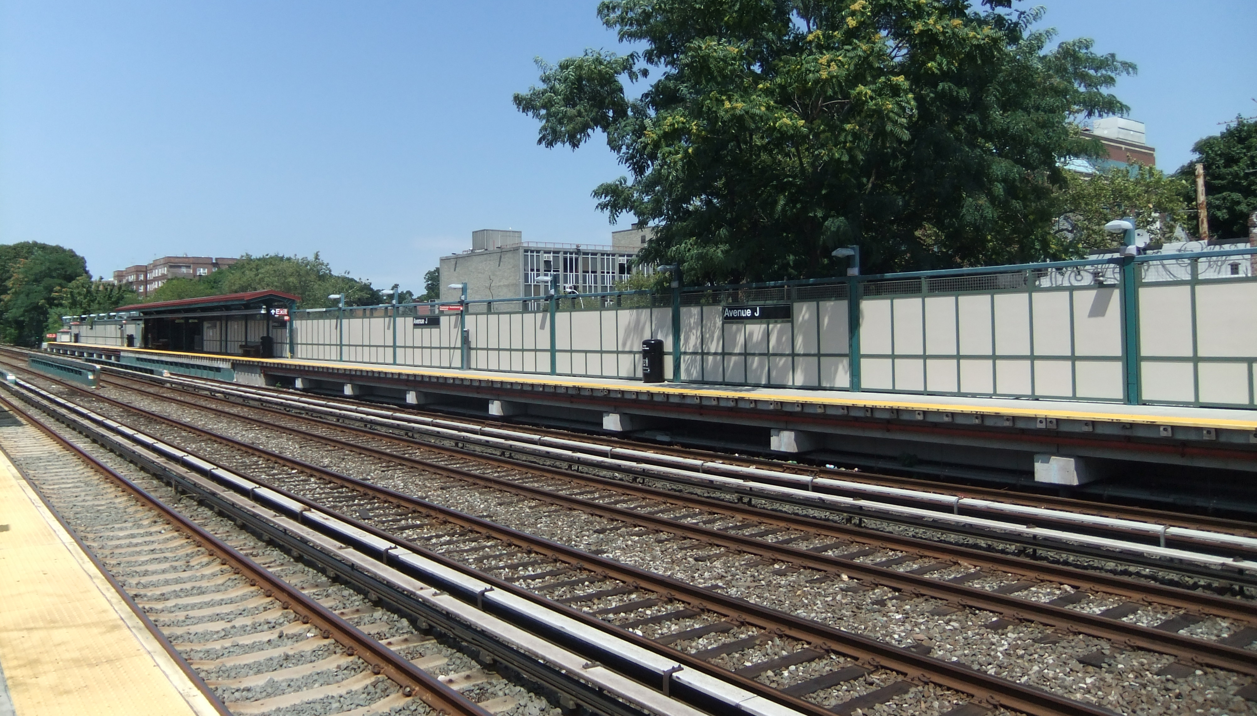 Manhattan bound platform at Avenue J.